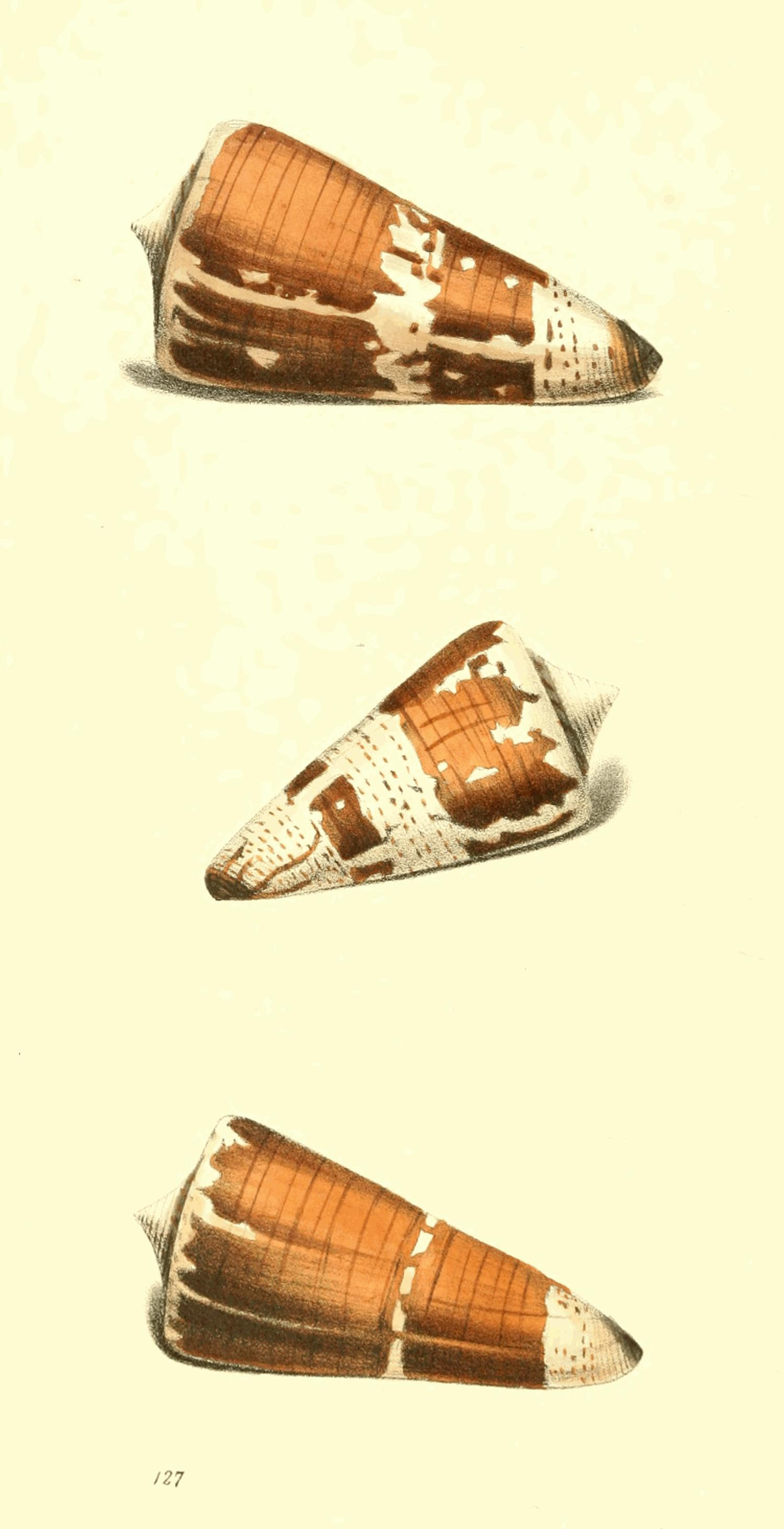 Plate 127. Conus Maldivus. Spanish Admiral Cone. Modern accepted name (2012) is Conus generalis[1].